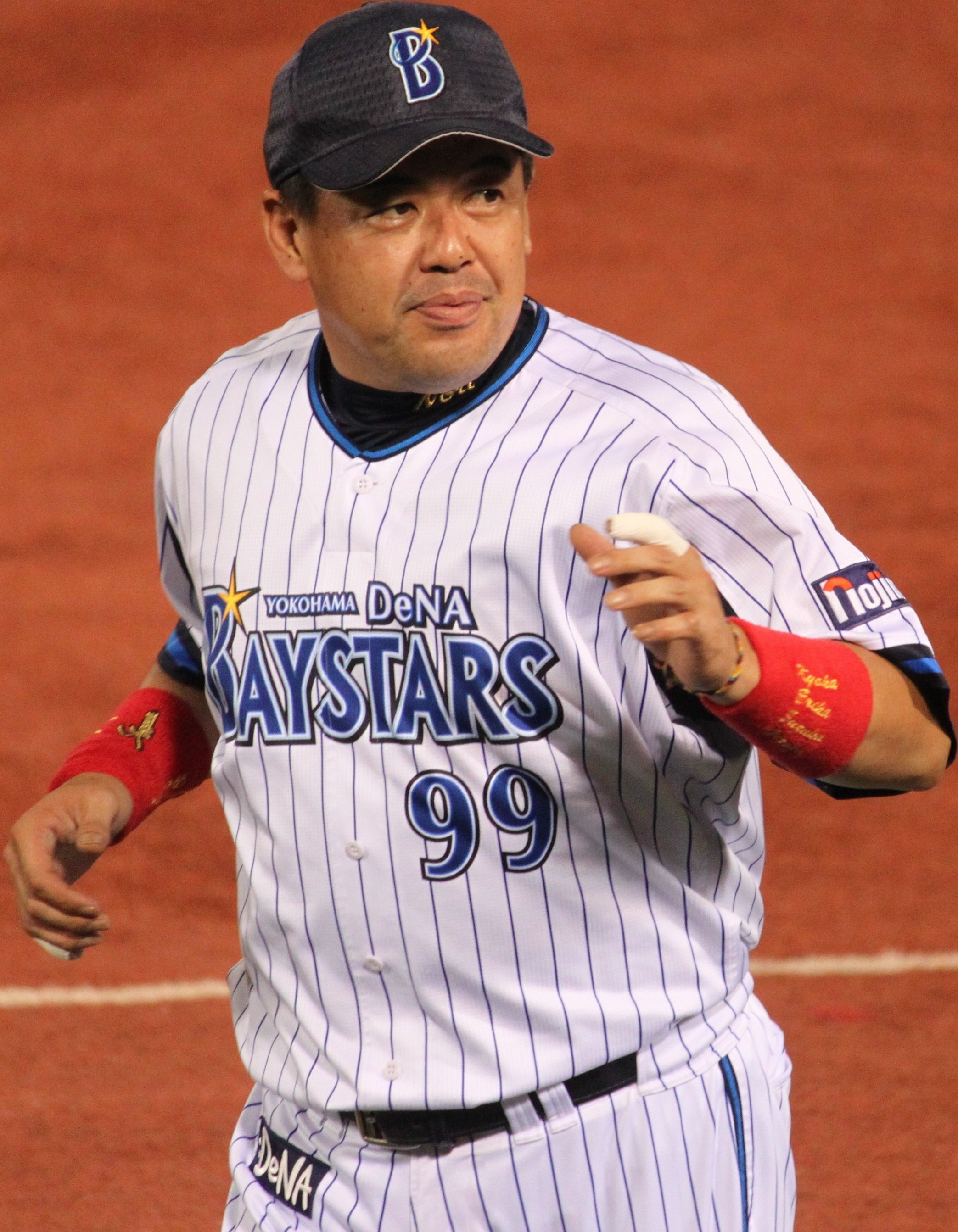 Norihiro Nakamura, infielder of the Yokohama DeNA BayStars, at Yokohama Stadium.